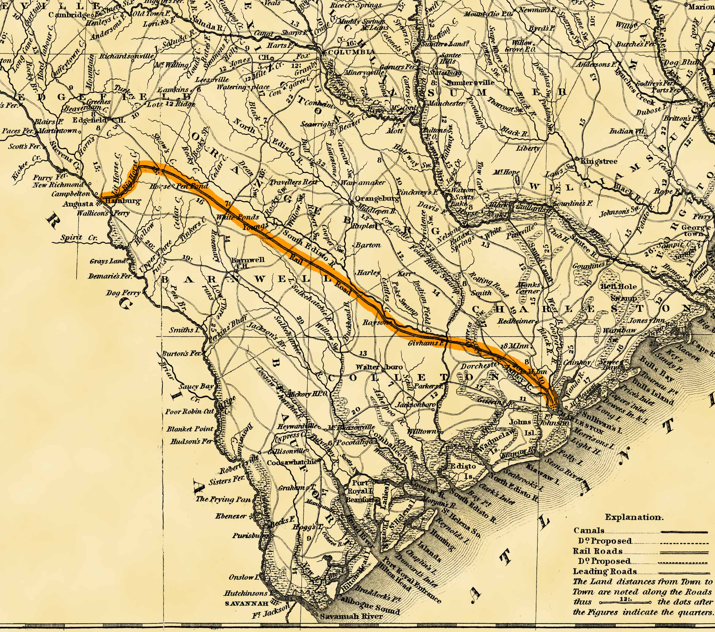 Excerpt of 1833 South Carolina transportation map showing 136 mile route of rail road from Charleston to Hamburg, built and operated by the South Carolina Canal and Rail Road Company